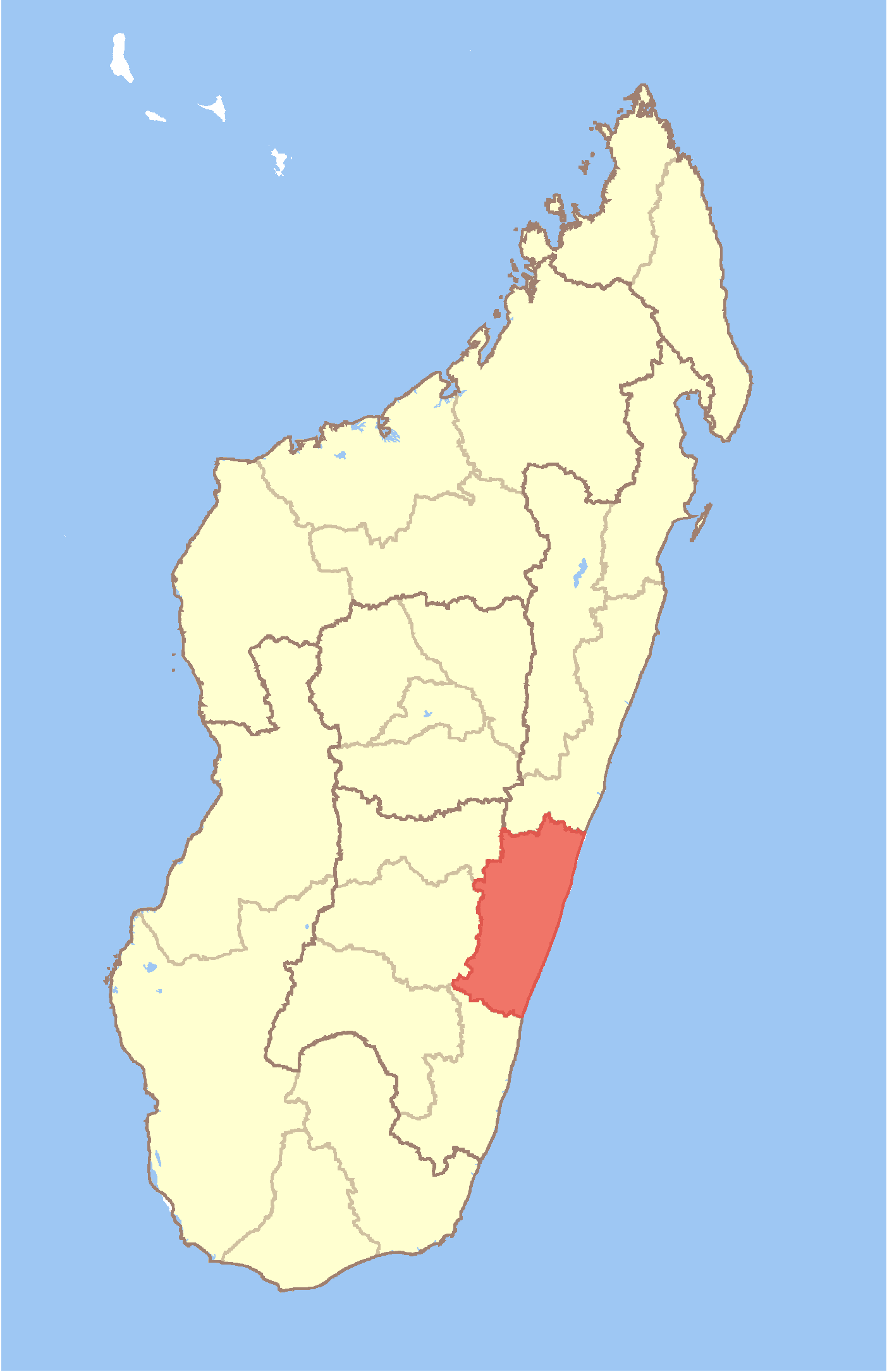 Map of Madagascar with Vatovavy-Fitovinany Region highlighted